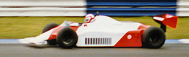 John Watson demonstrating a McLaren MP4/1 at the 2000 Coys International Historic Festival